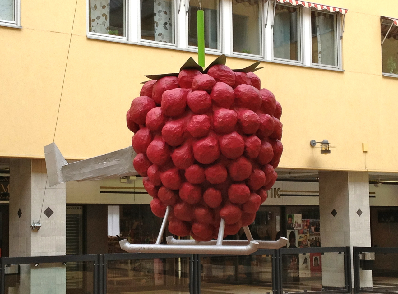 Raspberry art object, Hallonbergen ("Raspberry Mountains"), Stockholm